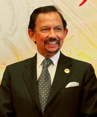 HM Hassanal Bolkiah at the 9th BIMP-EAGA Summit.